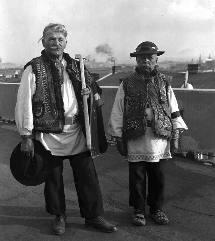 Hutsuls (left: Vasyl Devdiuk, Hutsul artist from Kolomyia), southern part of Ivano-Frankivsk oblast (province), western Ukraine. old prewar photo.